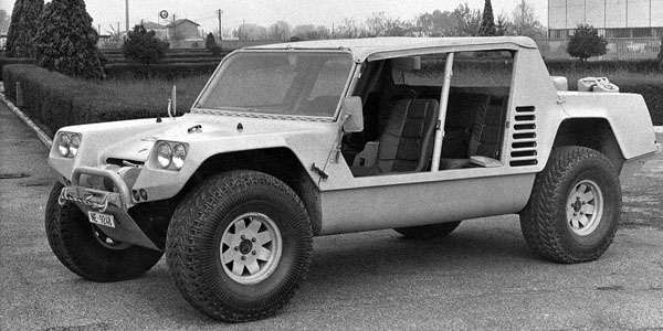 1977 Lamborghini Cheetah prototipo